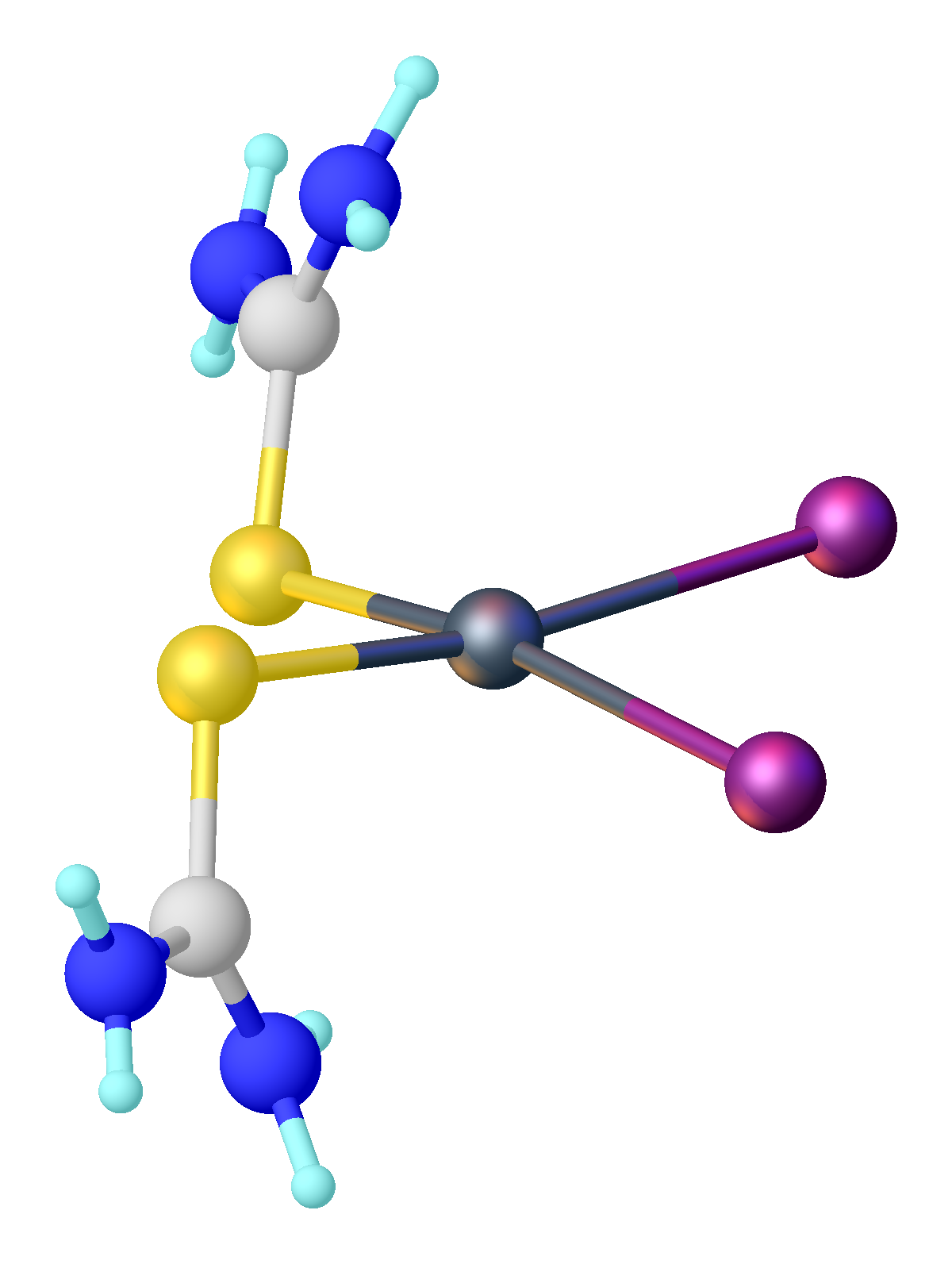 structure of TeI2(thiourea)2